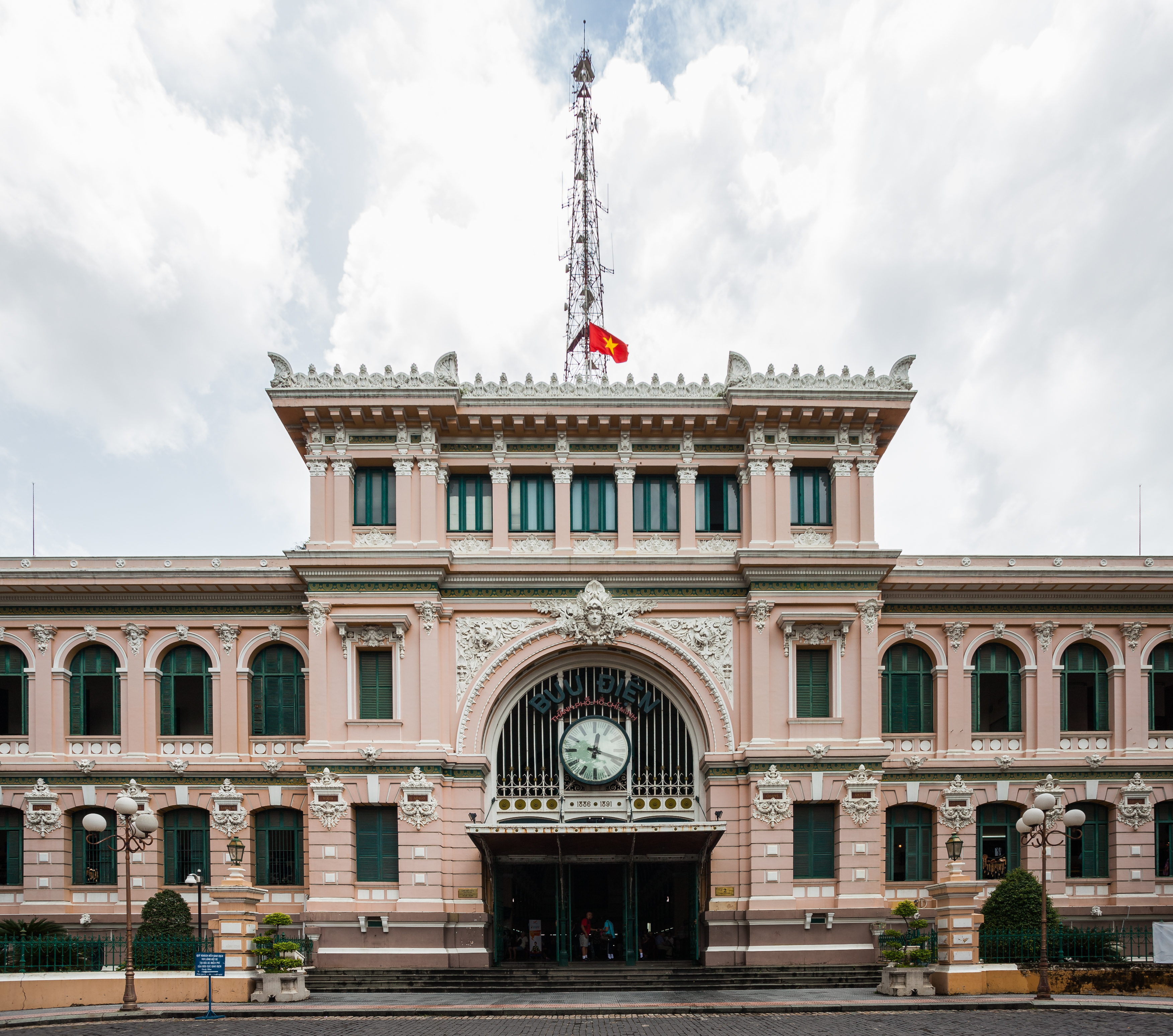 Central Post Office, Ho Chi Minh City, Vietnam